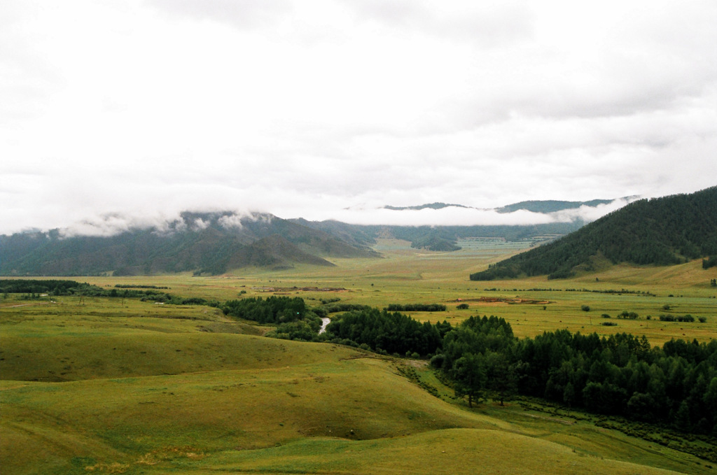 Uch-Enmek. View of the Karakol valley.